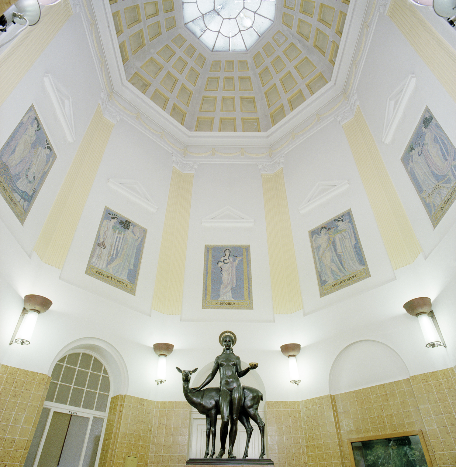 Entrance hall Solbad Raffelberg in Mülheim an der Ruhr